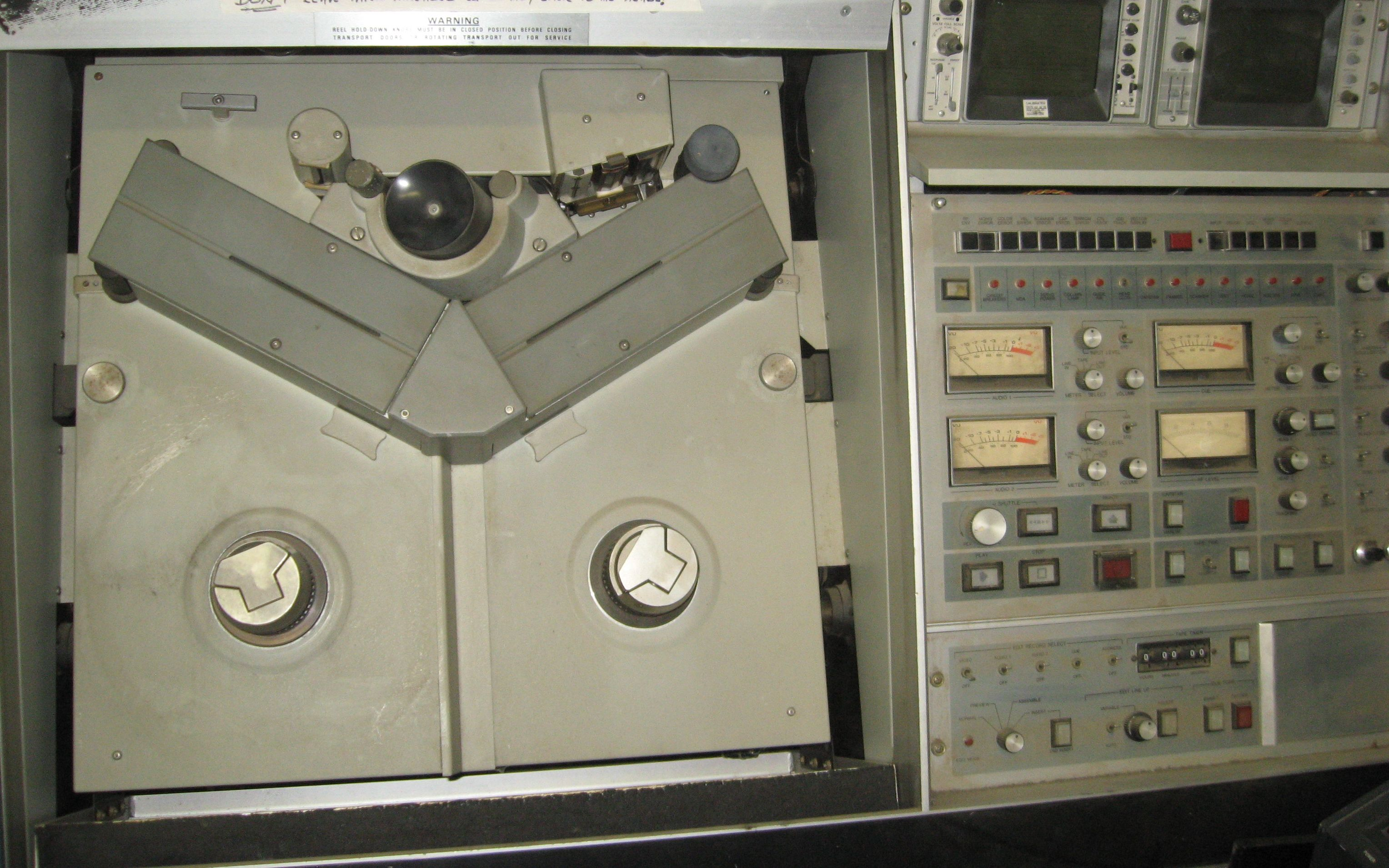 IVC-9000 at DC Video, Burbank, Ca USA